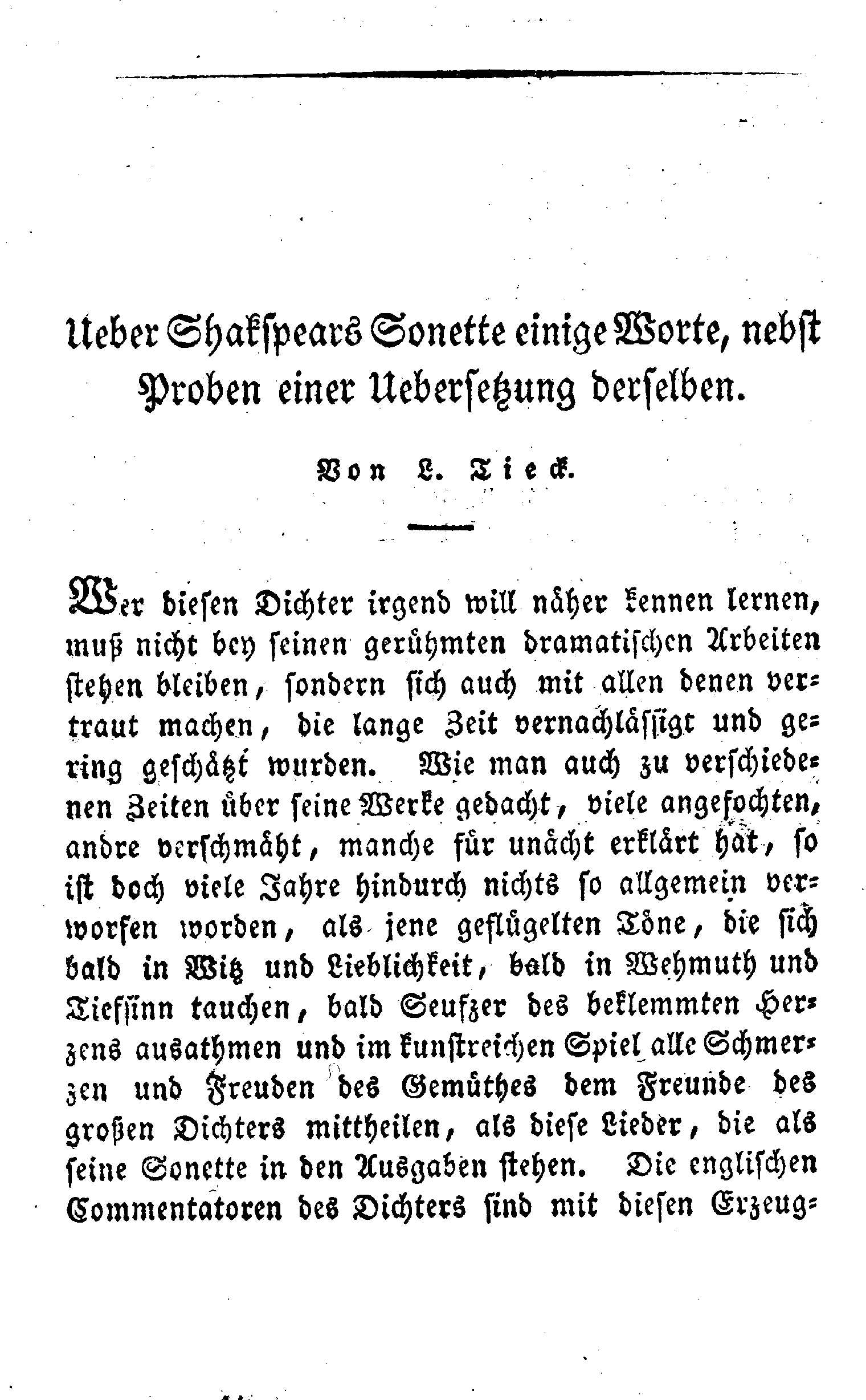 Belongs to translations of William Shakespeare's Sonnets, copy from book